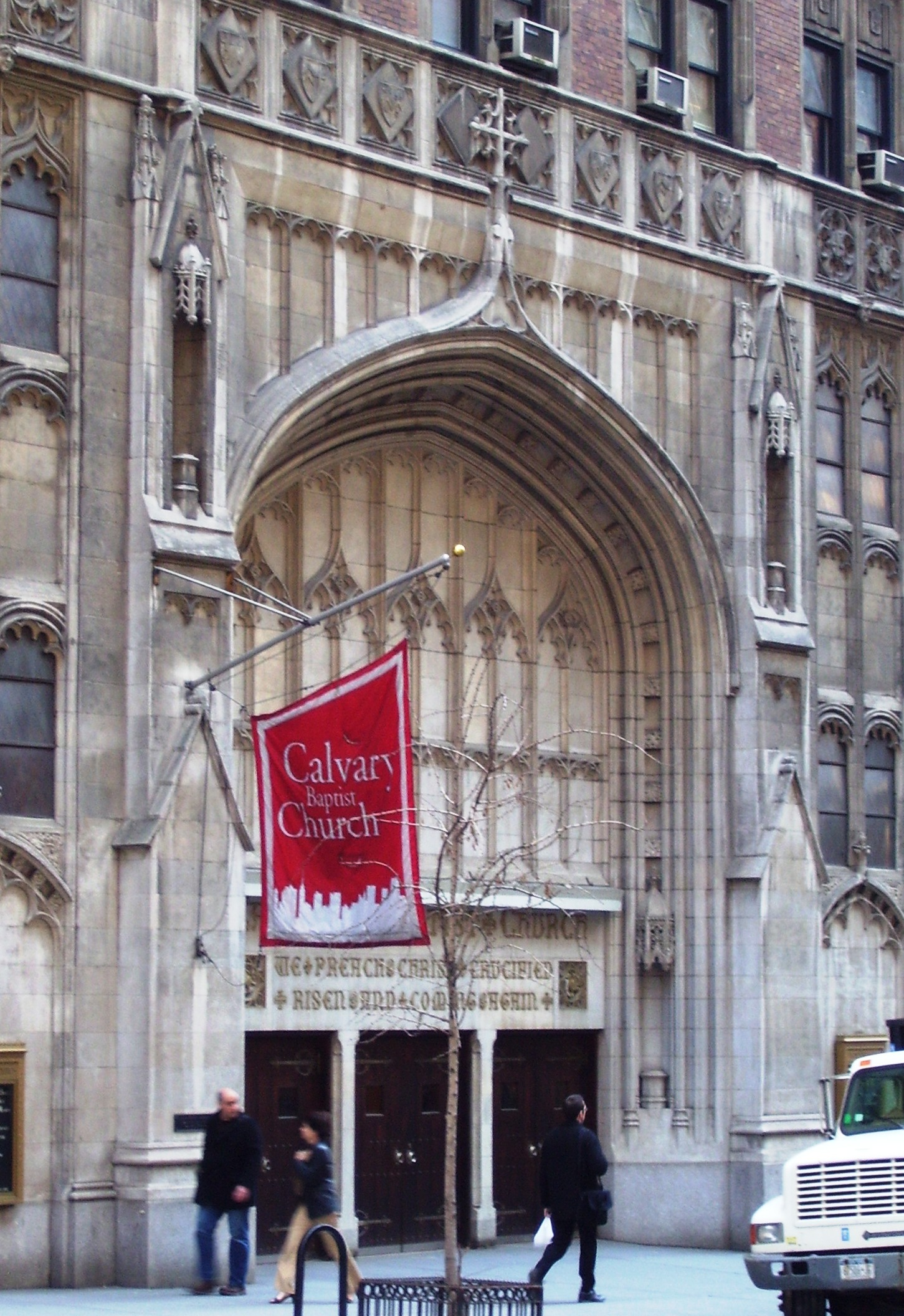 The Calvary Baptist Church, at 123 West 57th Street between the Avenue of the Americas (Sixth Avenue) and Seventh Avenue in Midtown Manhattan, is a "skyscraper" church built in 1931, designed by JArdine, Hill & Murdock. (Source: From Abyssinian to Zion (2004))